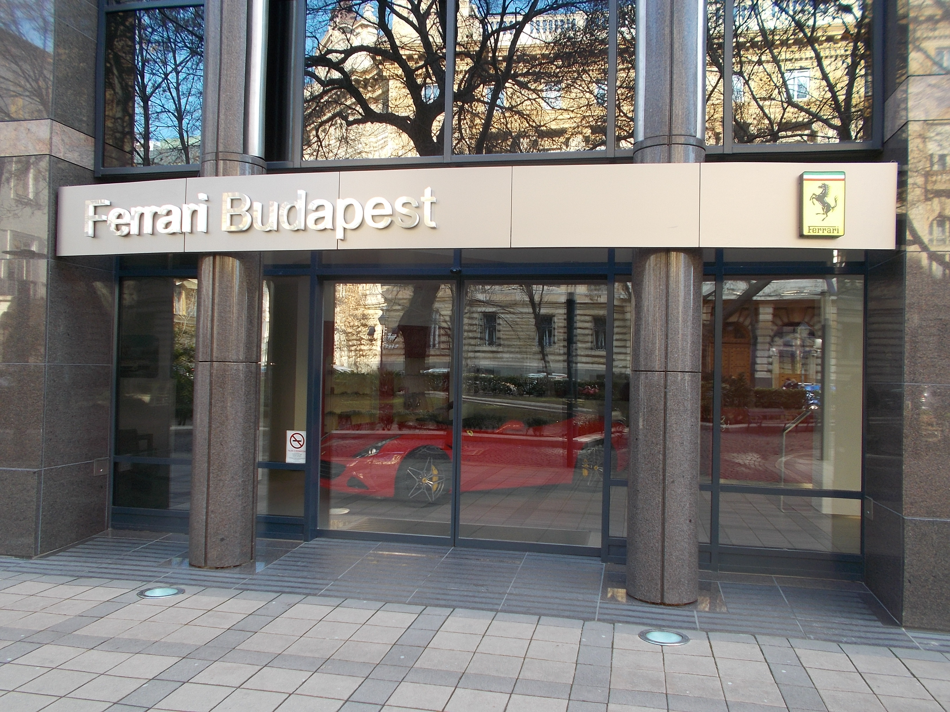 Ferrari Budapest in the Bank Center building. The window reflection shows the building of the Headquarters of the Hungarian National Bank. - Szabadság Square, Lipótváros neighbourhood, Budapest District V.